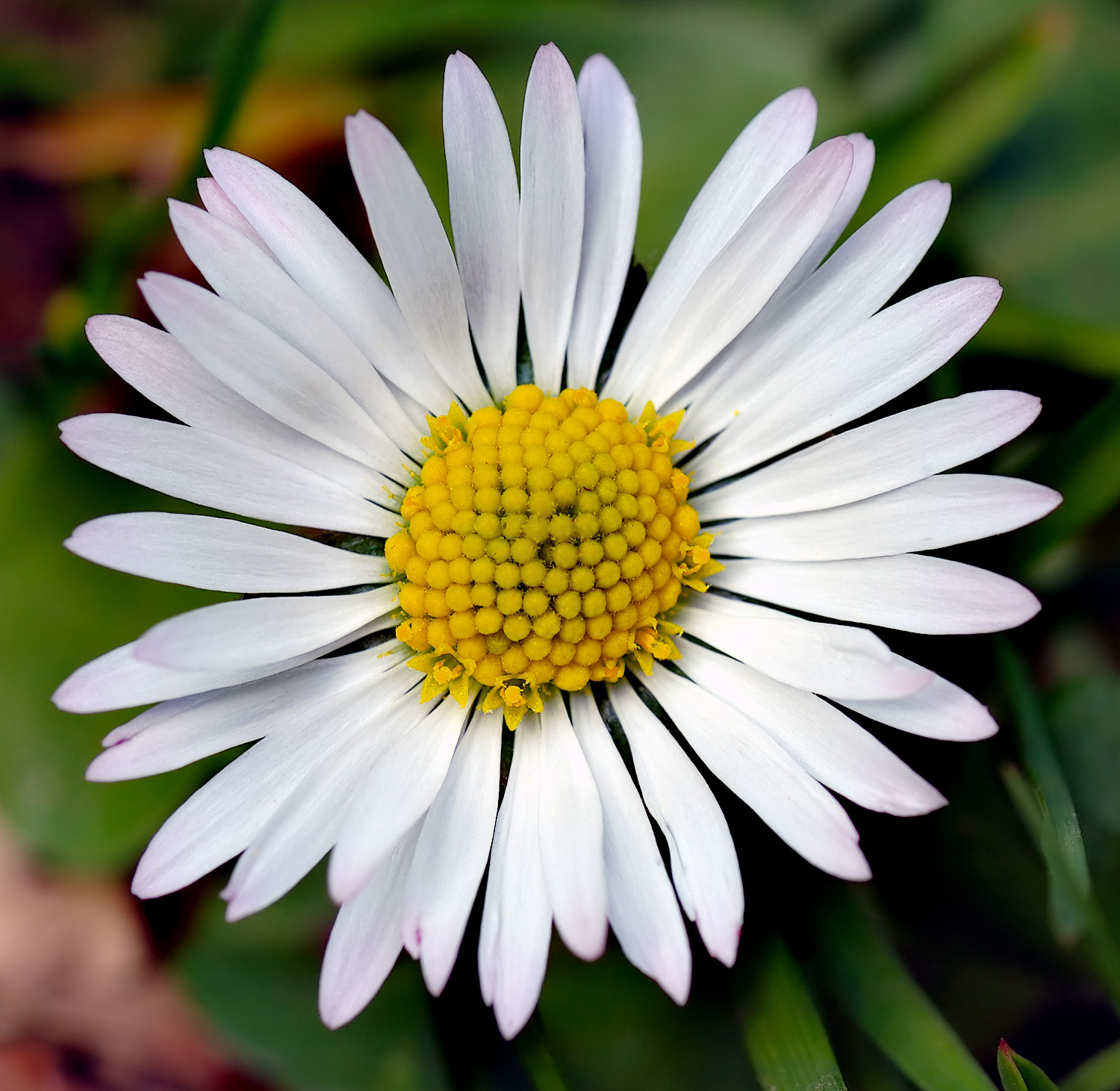 This image shows a Daisy flower (Bellis perennis).